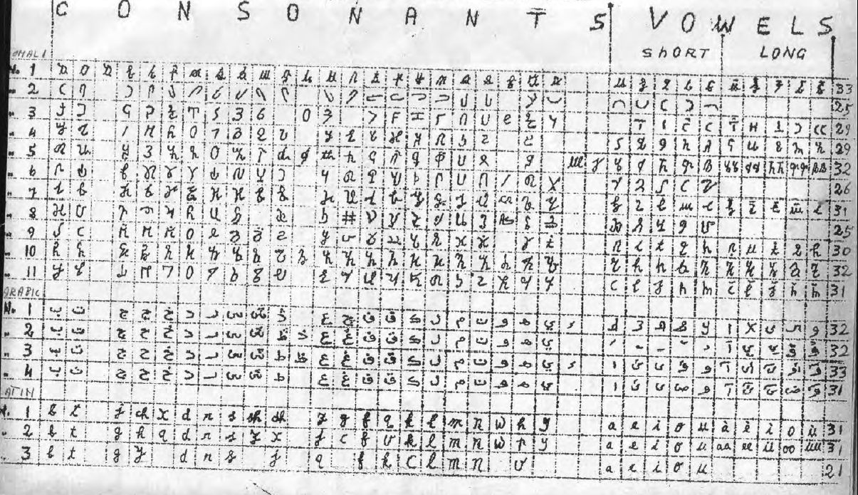 Somali alphabets chart from "The report of the Somali Language Committee", 1961